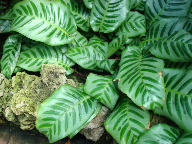 Picture of Calathea bella